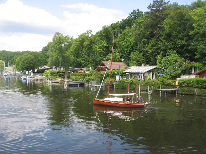 Causeway of the Stößenseebrücke. The Stößenseebrücke is a street-bridge of the Heerstraße over the lake Stößensee (river Havel back water) and the Havelchaussee in Berlin-Wilhelmstadt, Borough Spandau, at the border to Westend, Borough Charlottenburg-Wilmersdorf. It was built in 1908/1909 according to the plans of the construction engineer Karl Bernhard.